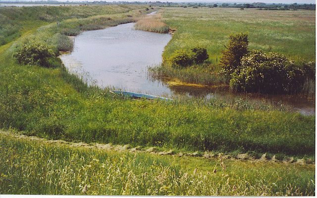 Salt Marsh Channel by Thistly Creek. Another channel between sea wall on the left and grazing marsh on the right. A boat is just visible in the foreground which may be used by fishermen or wildfowlers.